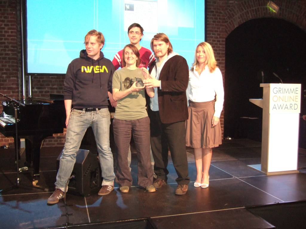 Team of German blog Riesenmaschine at Grimme Award Ceremony 2006